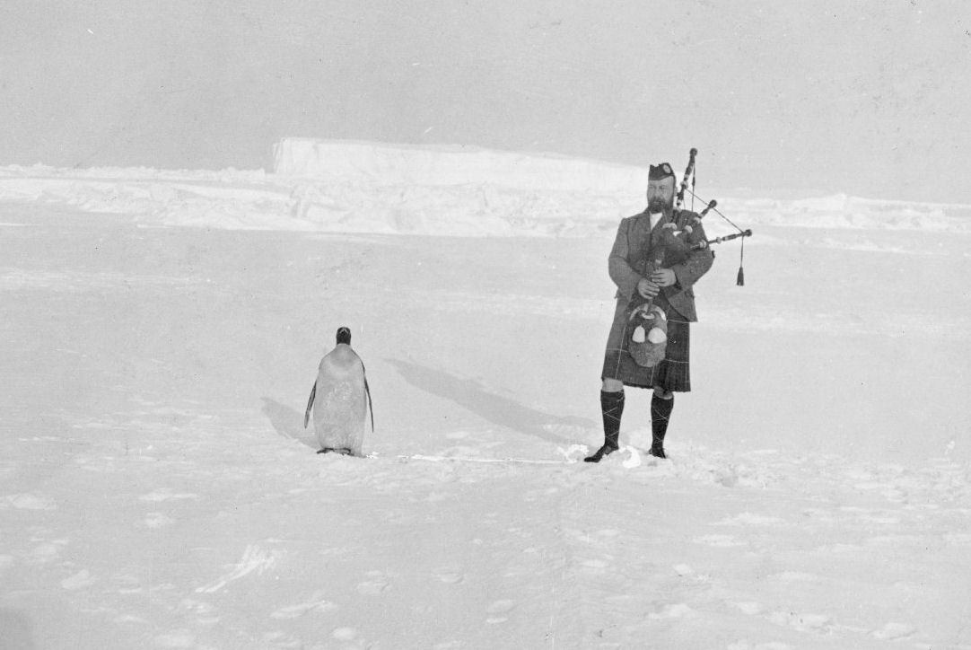 Bagpiper Gilbert Kerr with penguin during the Scottish National Antarctic Expedition, 1902-04